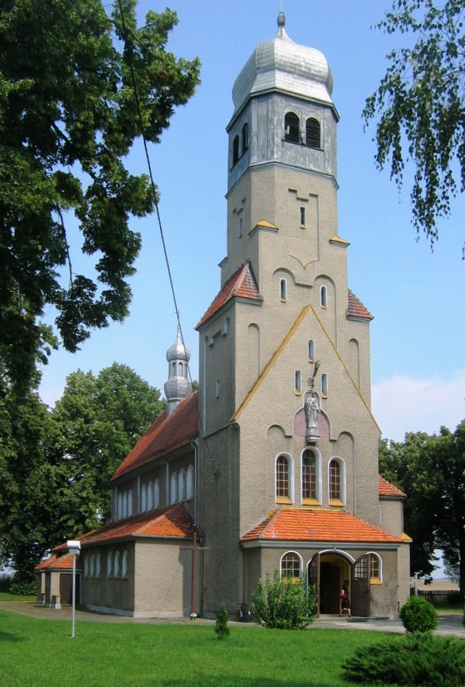 Church in Zdziechowice